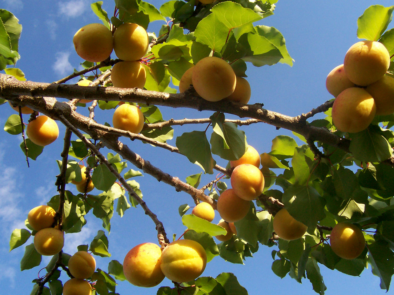 Apricot tree